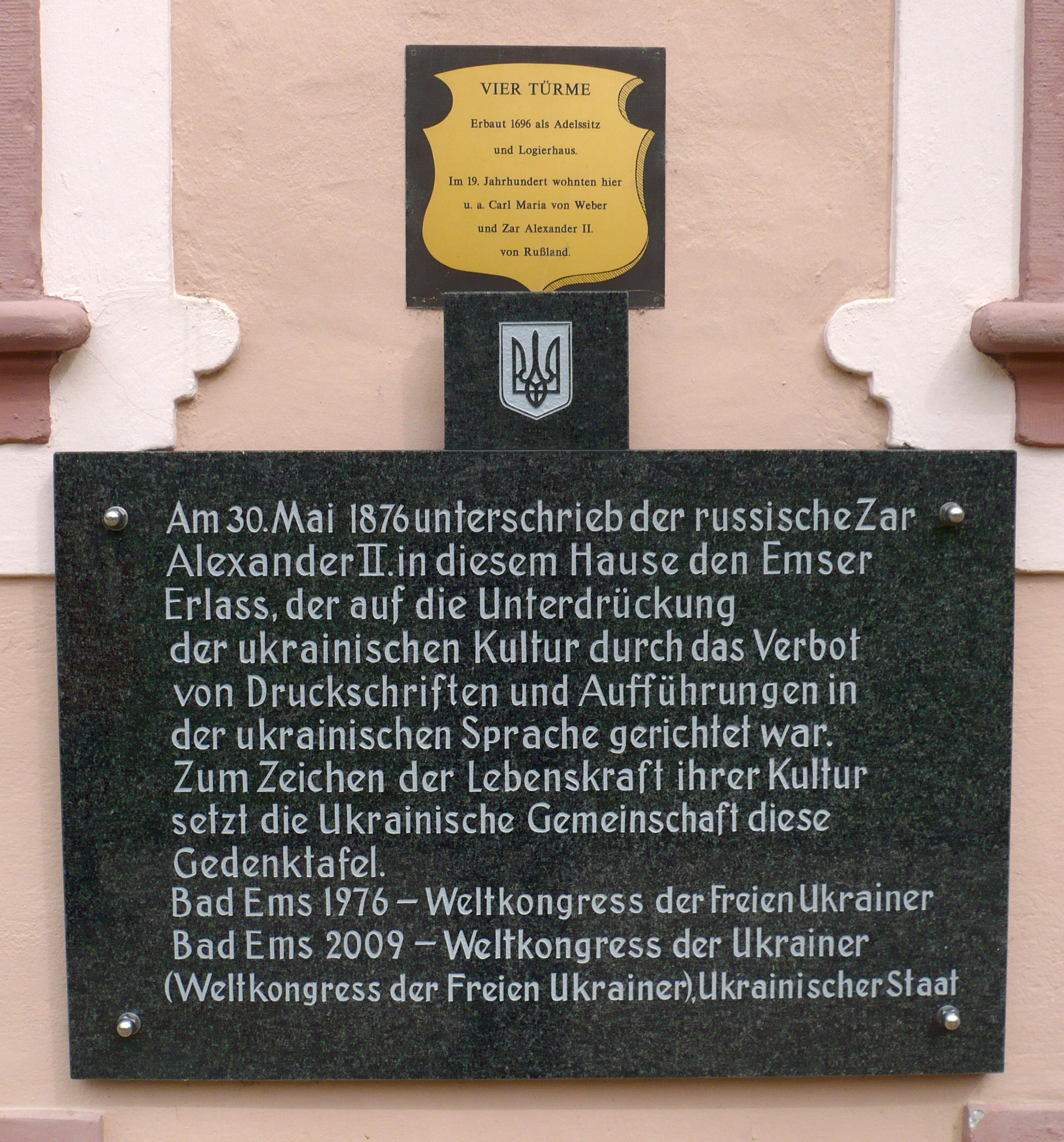 Plaque dedicated to Ems Ukraz in Bad Ems.